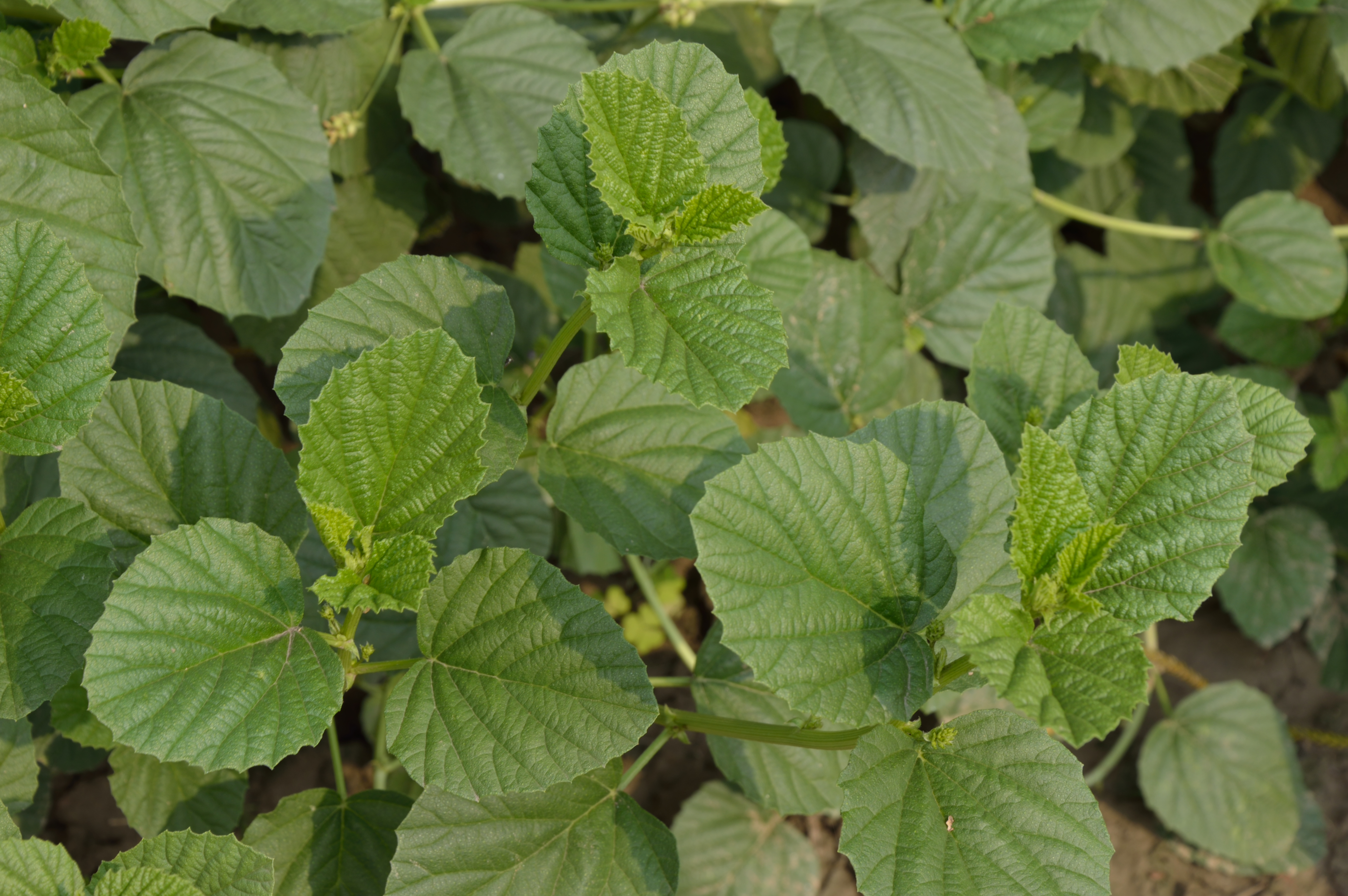 Photographs at The Agri-Horticultural Society of India, Alipore in Kolkata.